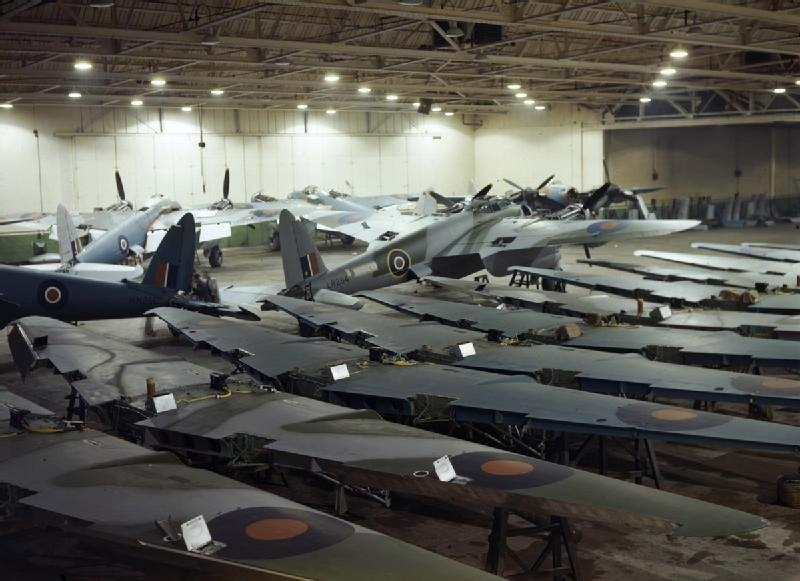 De Havilland Mosquito aircraft in various stages of production at Hatfield, Hertfordshire (UK). At right is a Mosquito FB.VI, serial LR254, to the left is the tail of a B.XVI, serial MM2??.